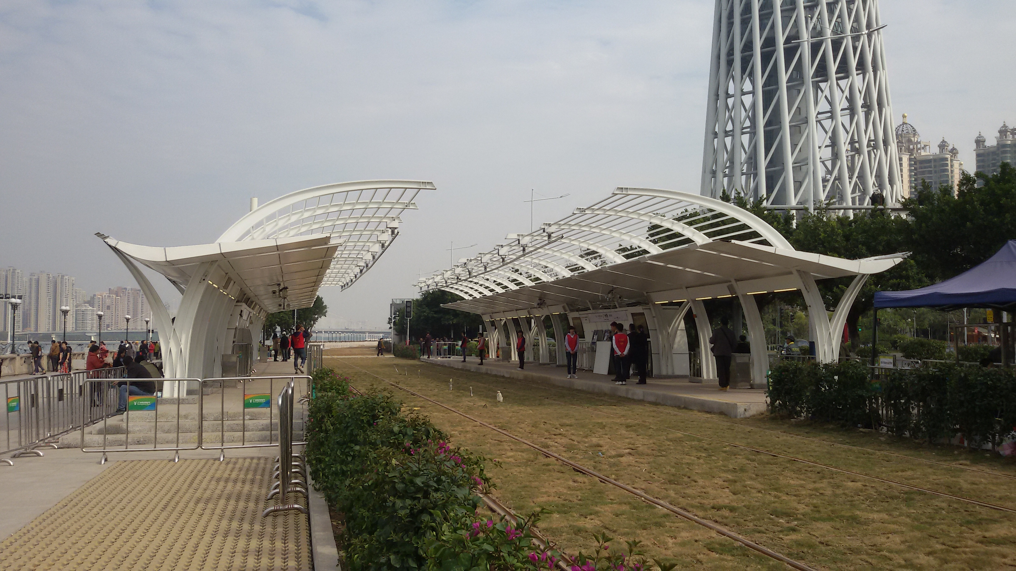 SURFACE for CANTON TOWER STATION in GZTram 粵語: 廣州有軌電車，廣州塔站嘅樣。